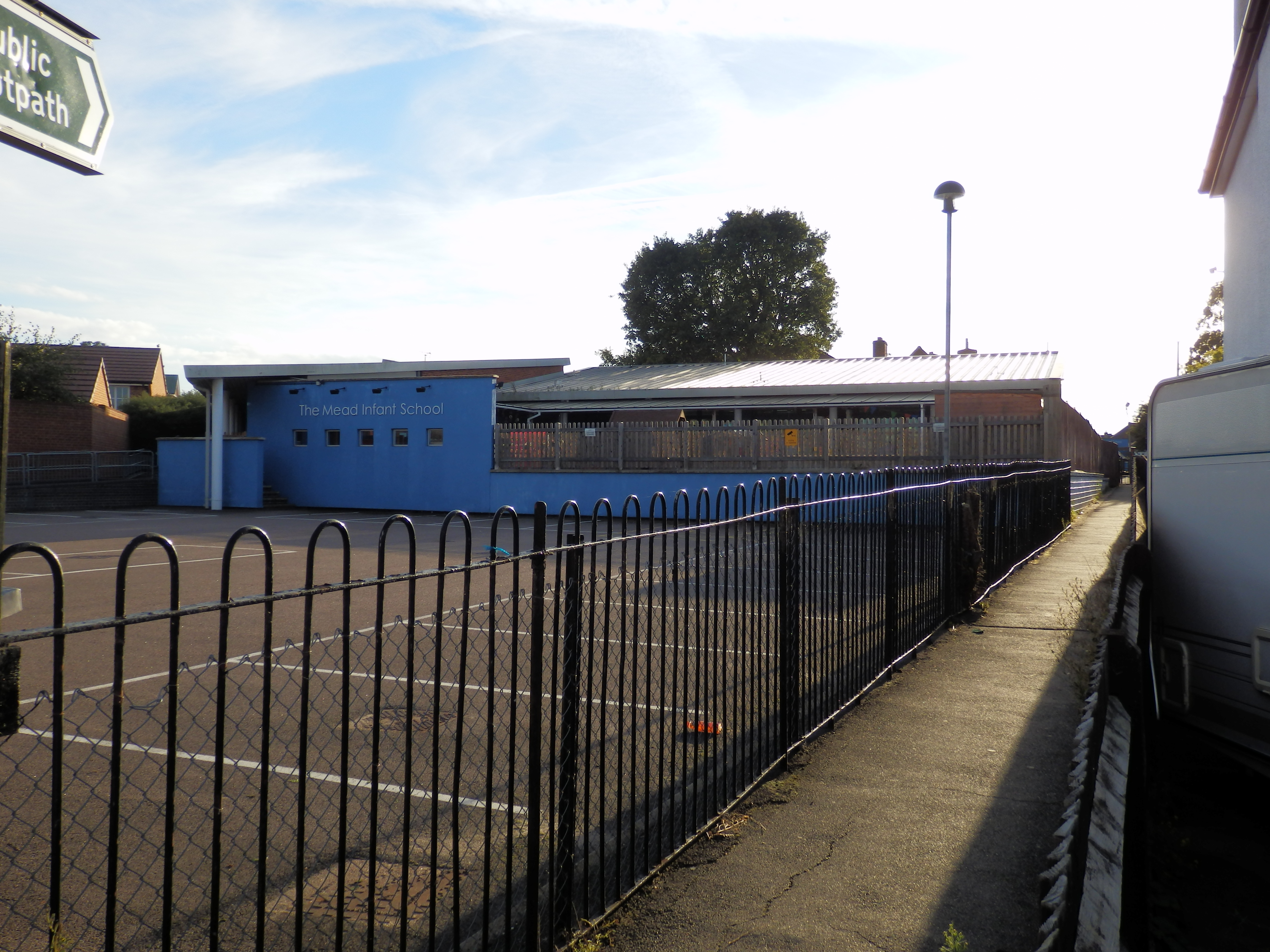 The Mead Infant School, Cuddington Avenue